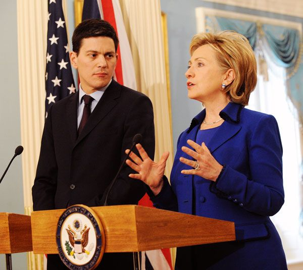 David Miliband, British Secretary of State for Foreign and Commonwealth Affairs, with Hillary Clinton, United States Secretary of State, at a press conference following their meeting in Washington, D.C.